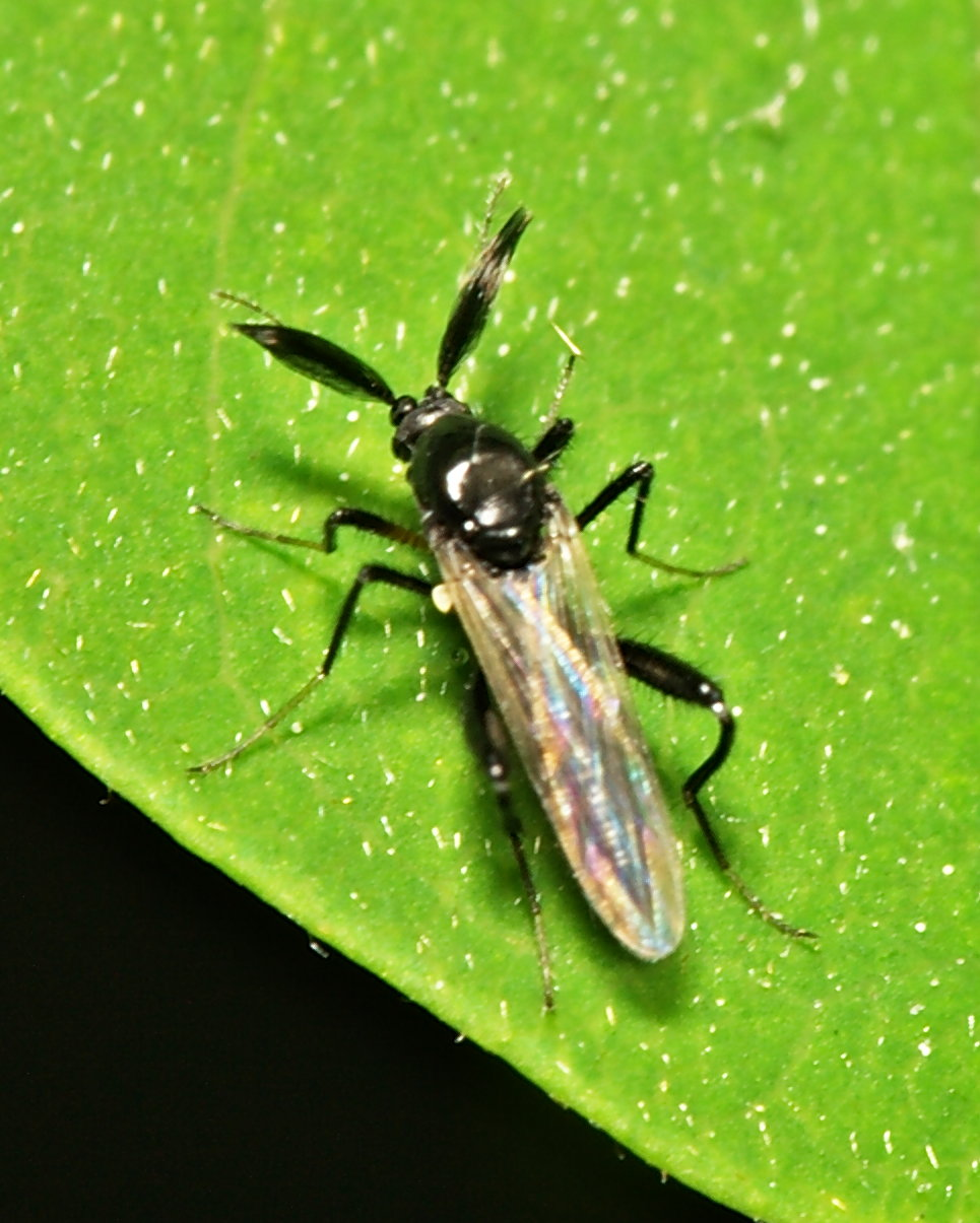 not yet determined male Ceratopogonidae, from Cologne, Germany.